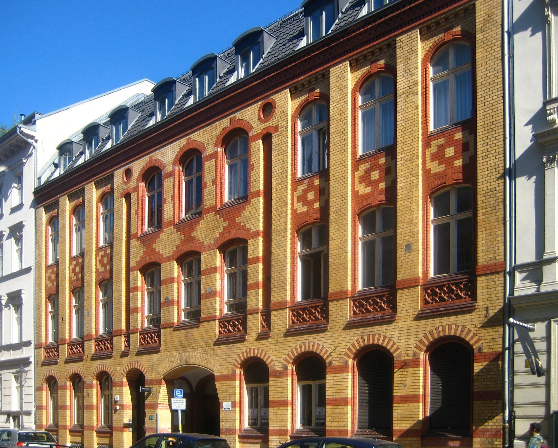 Residential building Linienstraße 155 in Berlin-Mitte, built in 1892. The brick facade refers to the fact, that the rear part of the lot was originally used for industrial production. A boiler house and a chimney have been preserved. The whole complex has been dedicated as a historic landmark.